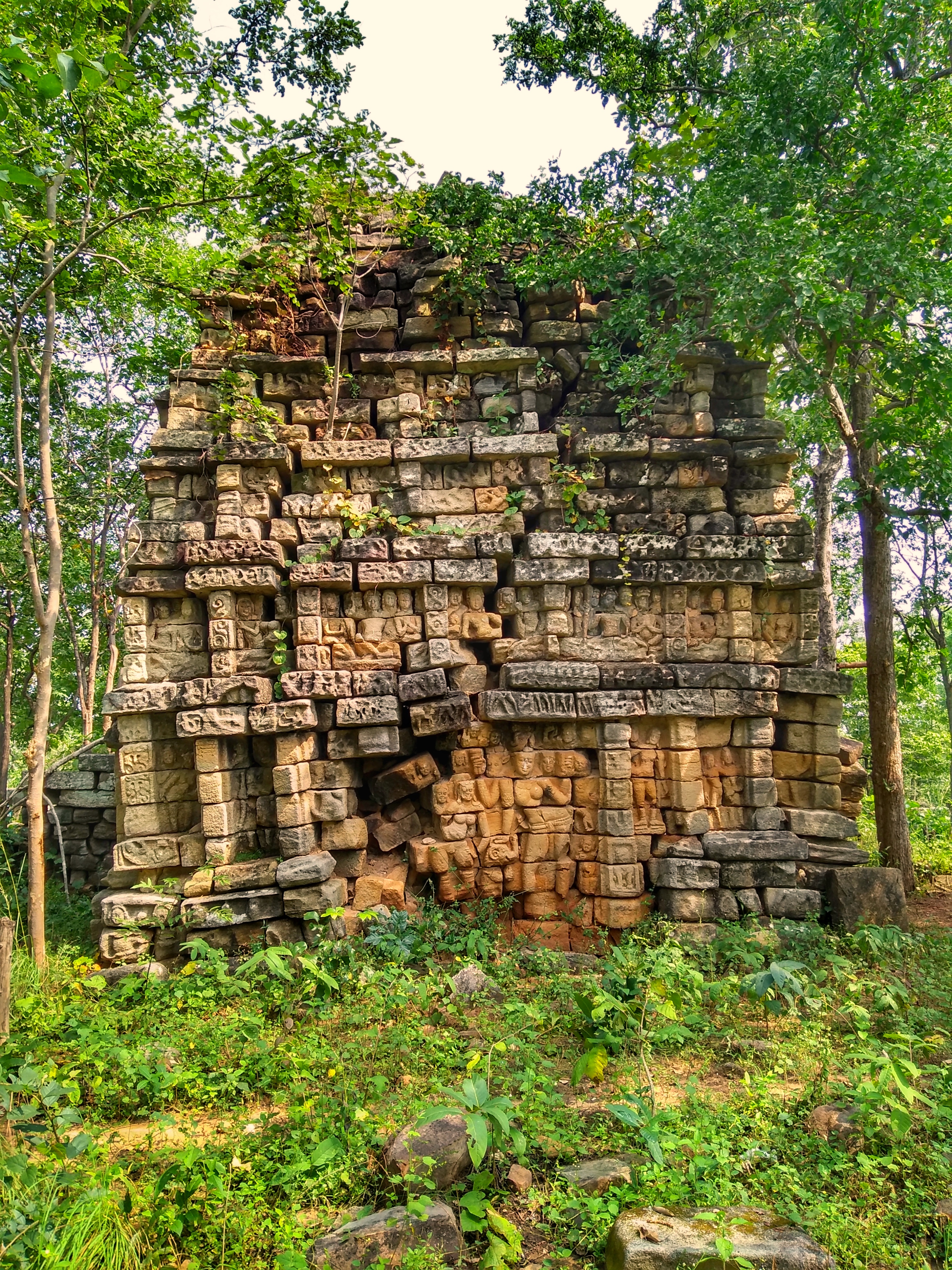 Devunigutta Temple In Kottur Village, Mulugu Mandal, Jayashankar Bhupalapally District, Telangana State